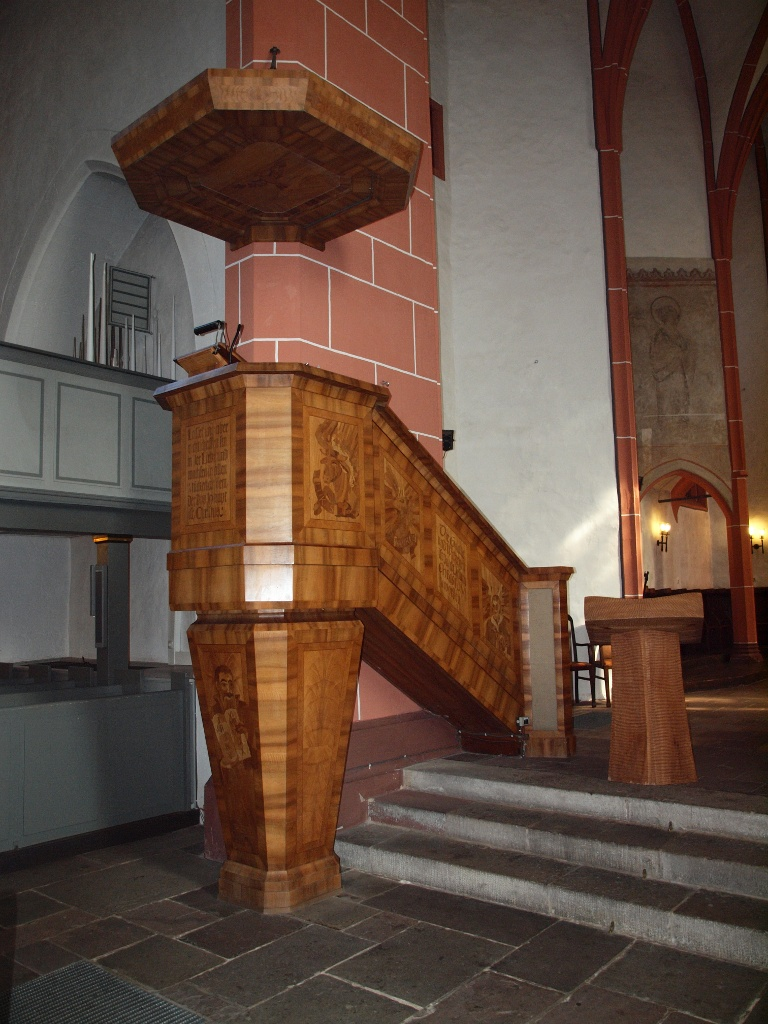 Pulpit of parish churc in Bad Hersfeld, with intarsia from W. Dupont